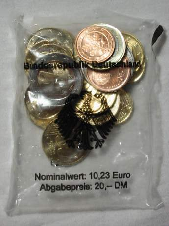 Starterkit from Germany, Euro-Coins, 20 DM = 10,23 €